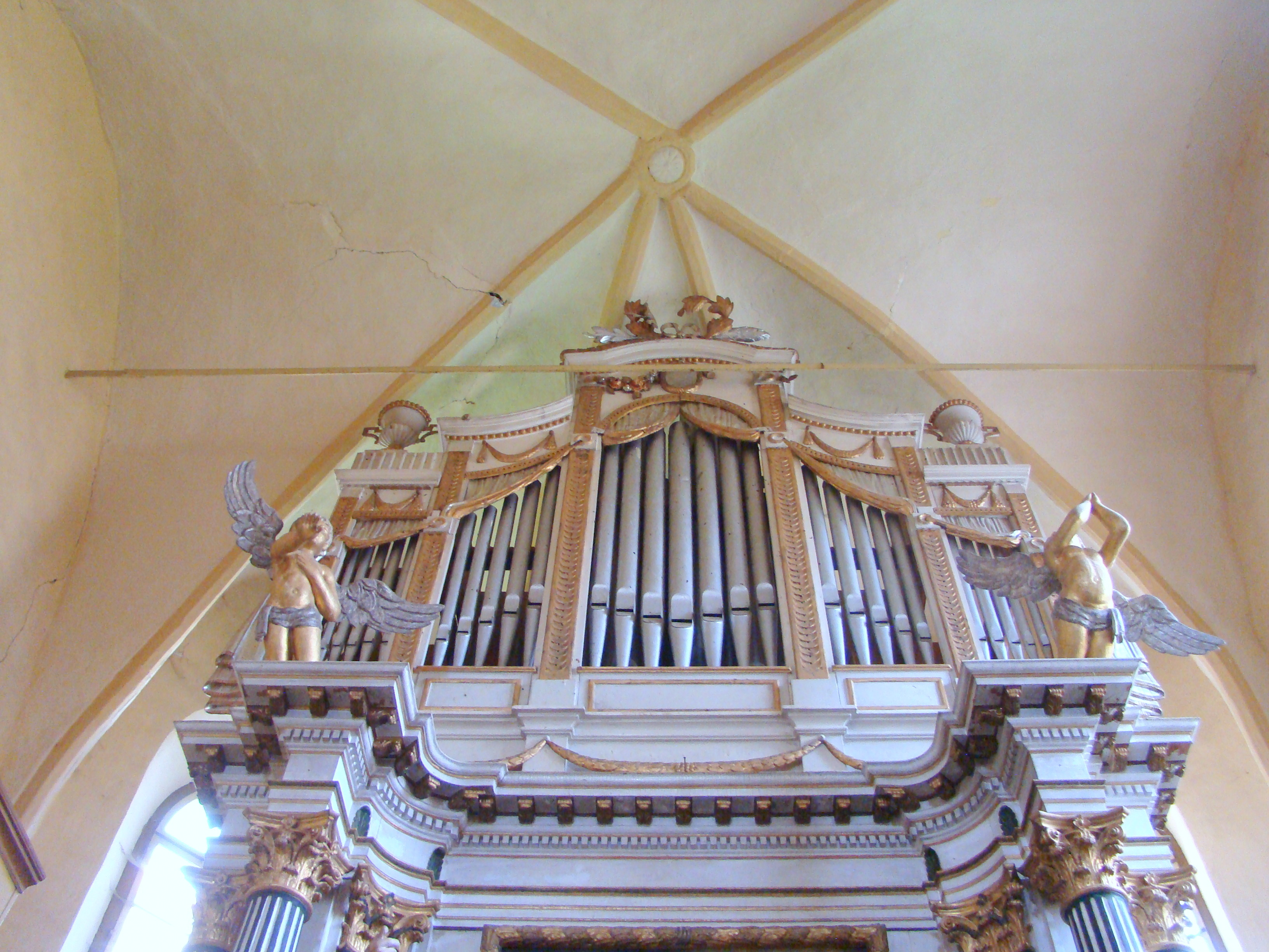 Fortified church in Cața, Braşov County, Romania